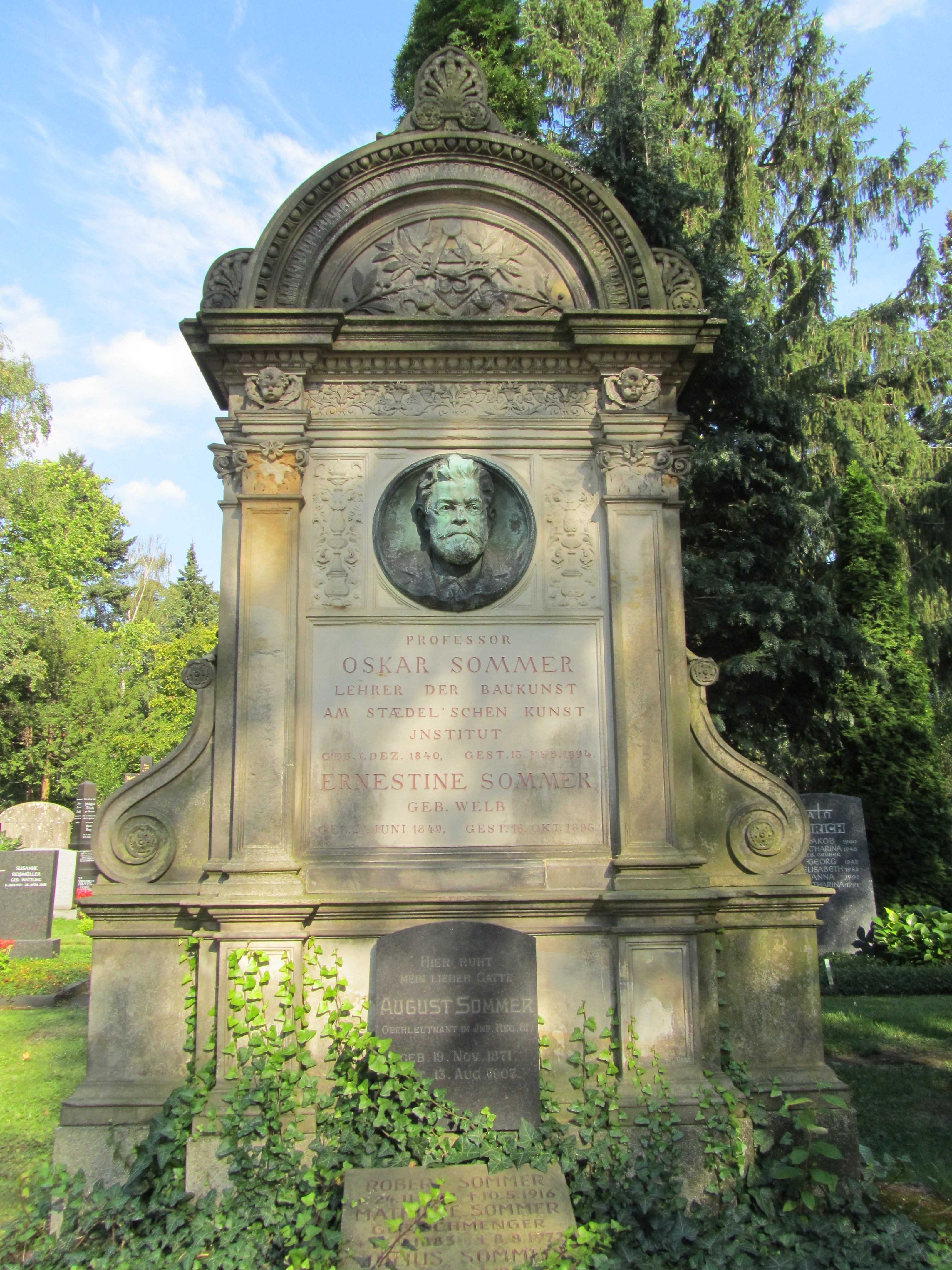 Grave from Oskar Sommer at South Cemetery Frankfurt am Main